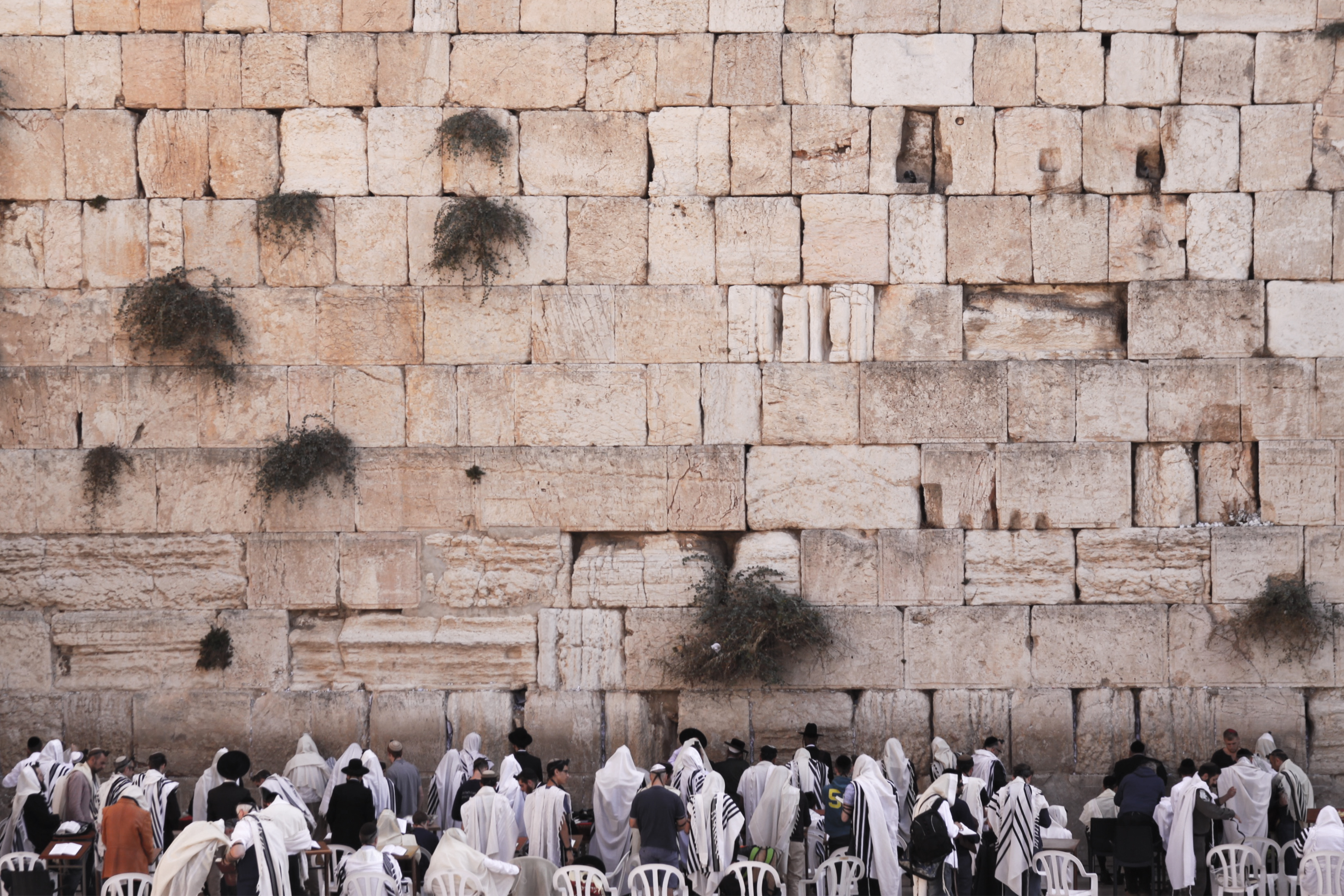 Photo of the Western Wall